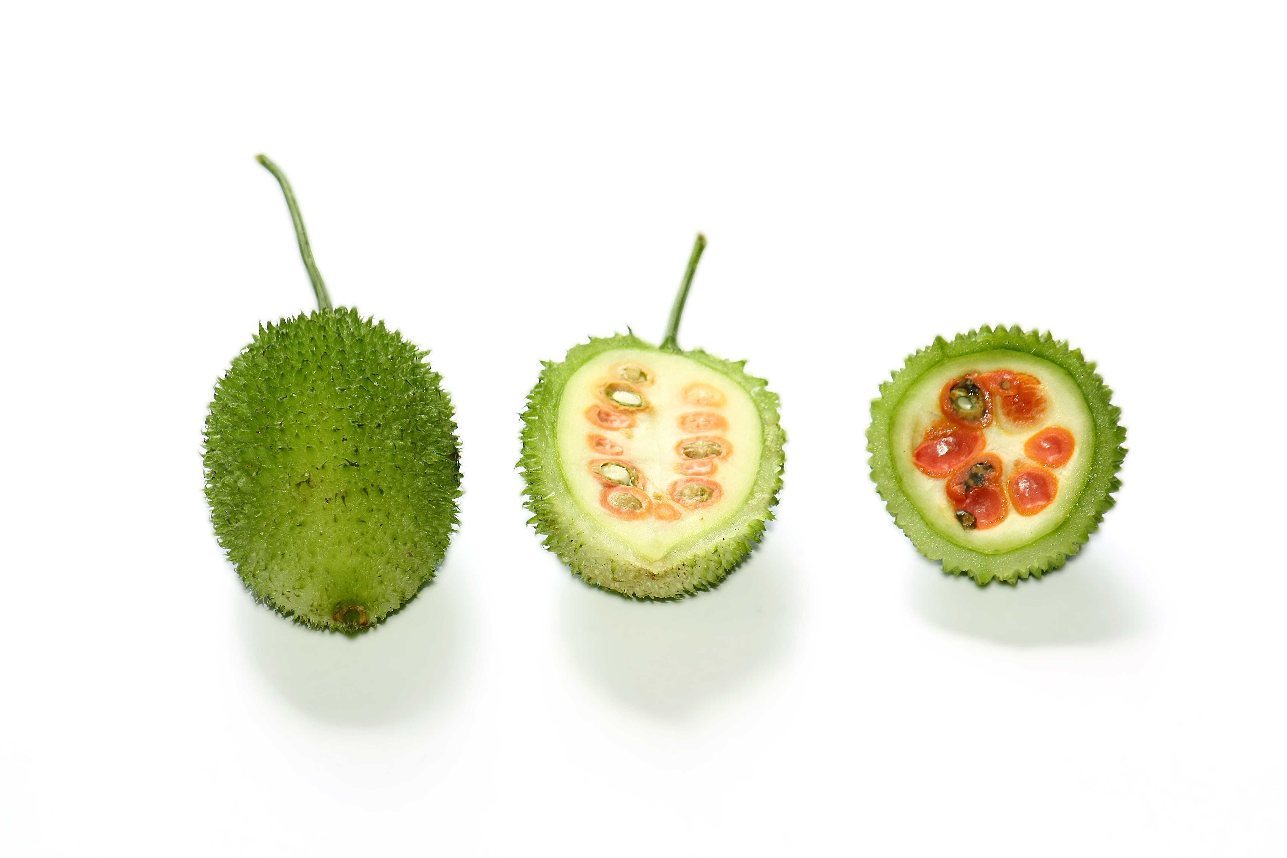 Spiny gourd (Momordica dioica), full, halved and cross section